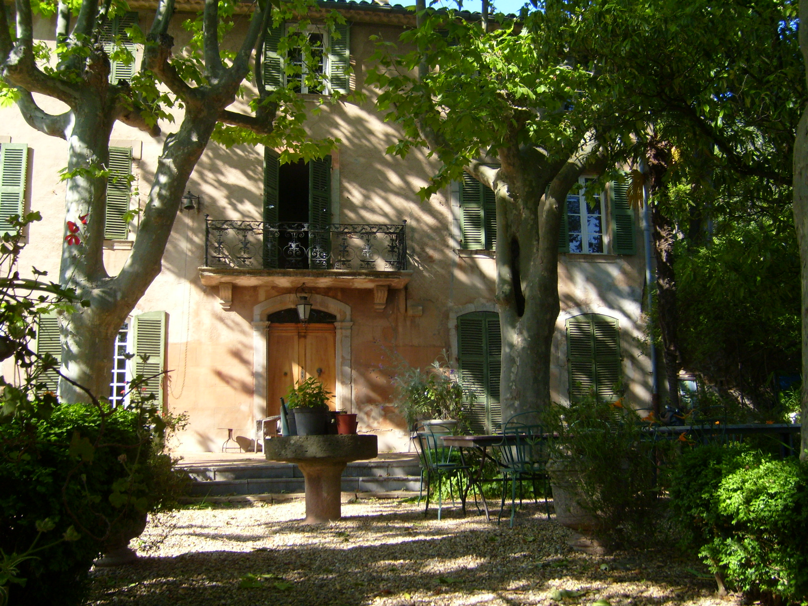 Bastide of the Domaine d'Orves, Var Department, France